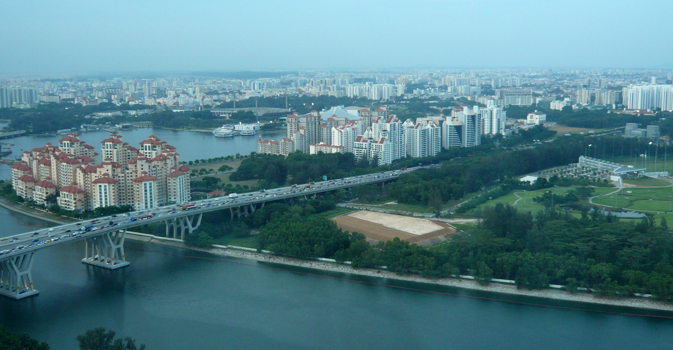 A view of Benjamin Sheares Bridge from the Singapore Flyer.